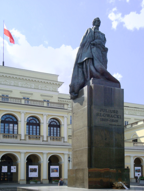 Juliusz Słowacki Monument in Warsaw